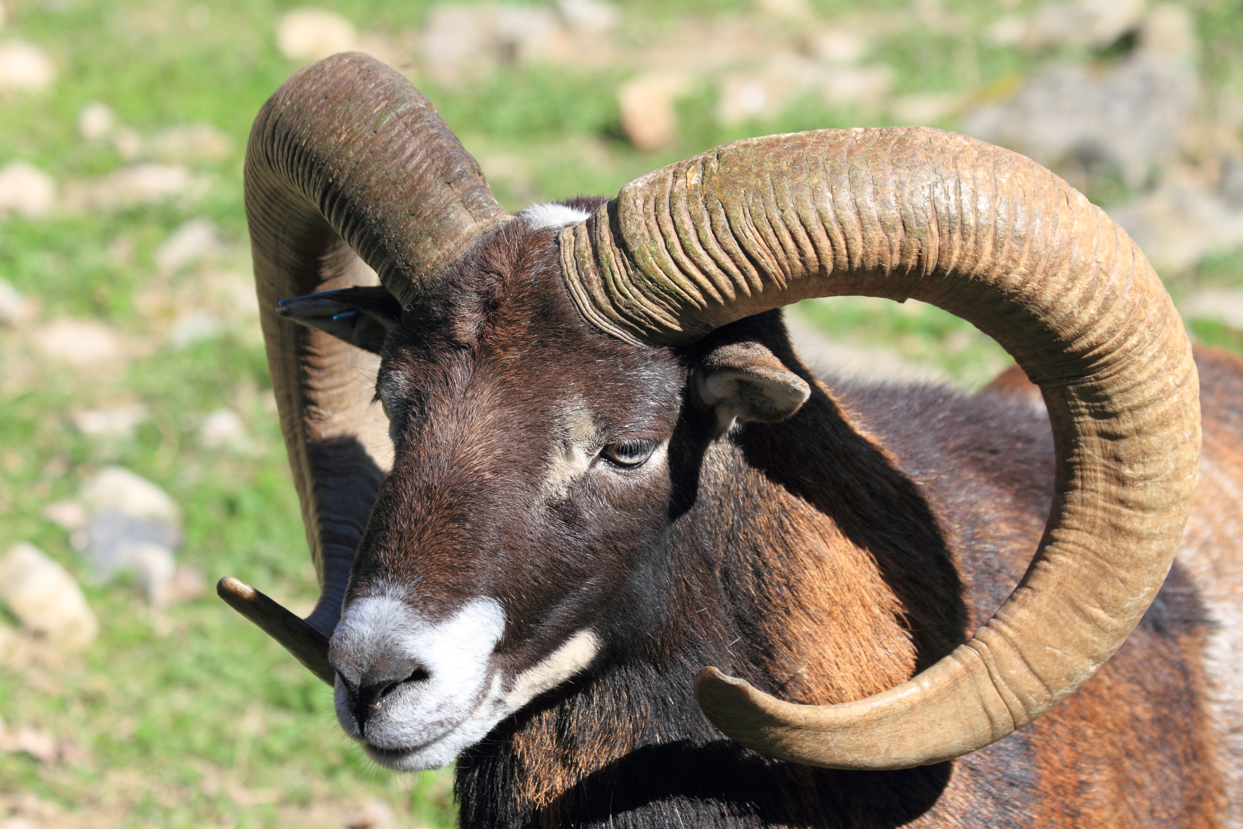 Mouflon at Wildpark Bad Mergentheim.